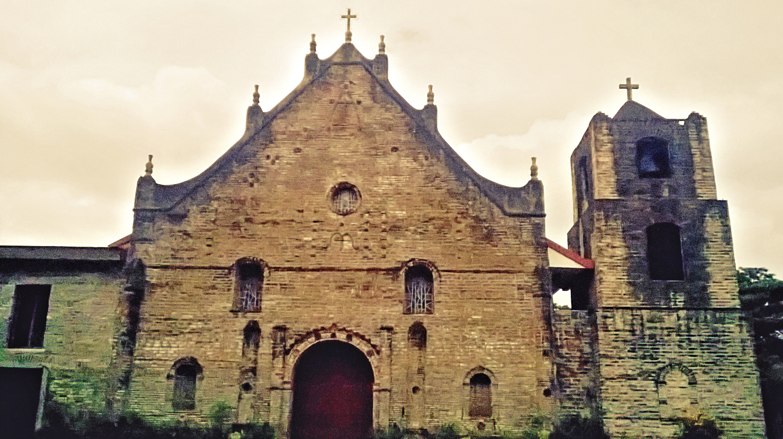 Church located at Gamu, Isabela